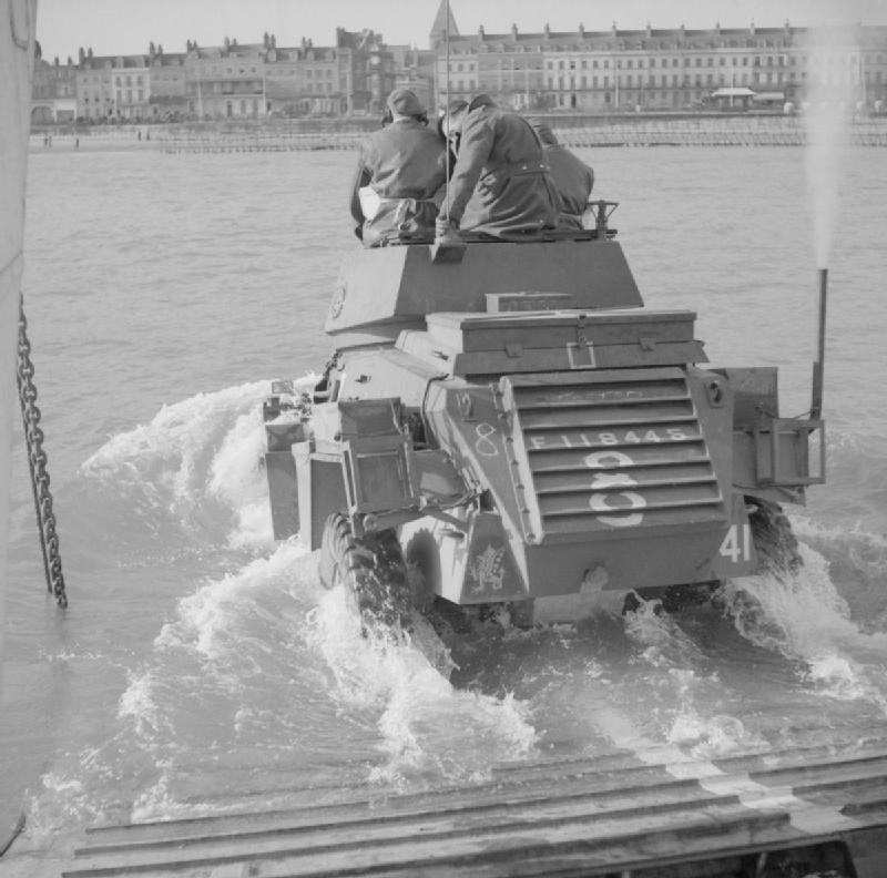 The British Army in the United Kingdom 1939-45 Humber armoured car of 43rd (Wessex) Division entering the water from a landing craft during wading trials at Weymouth (No. 1 Wading Trials Centre REME), 5 February 1944.